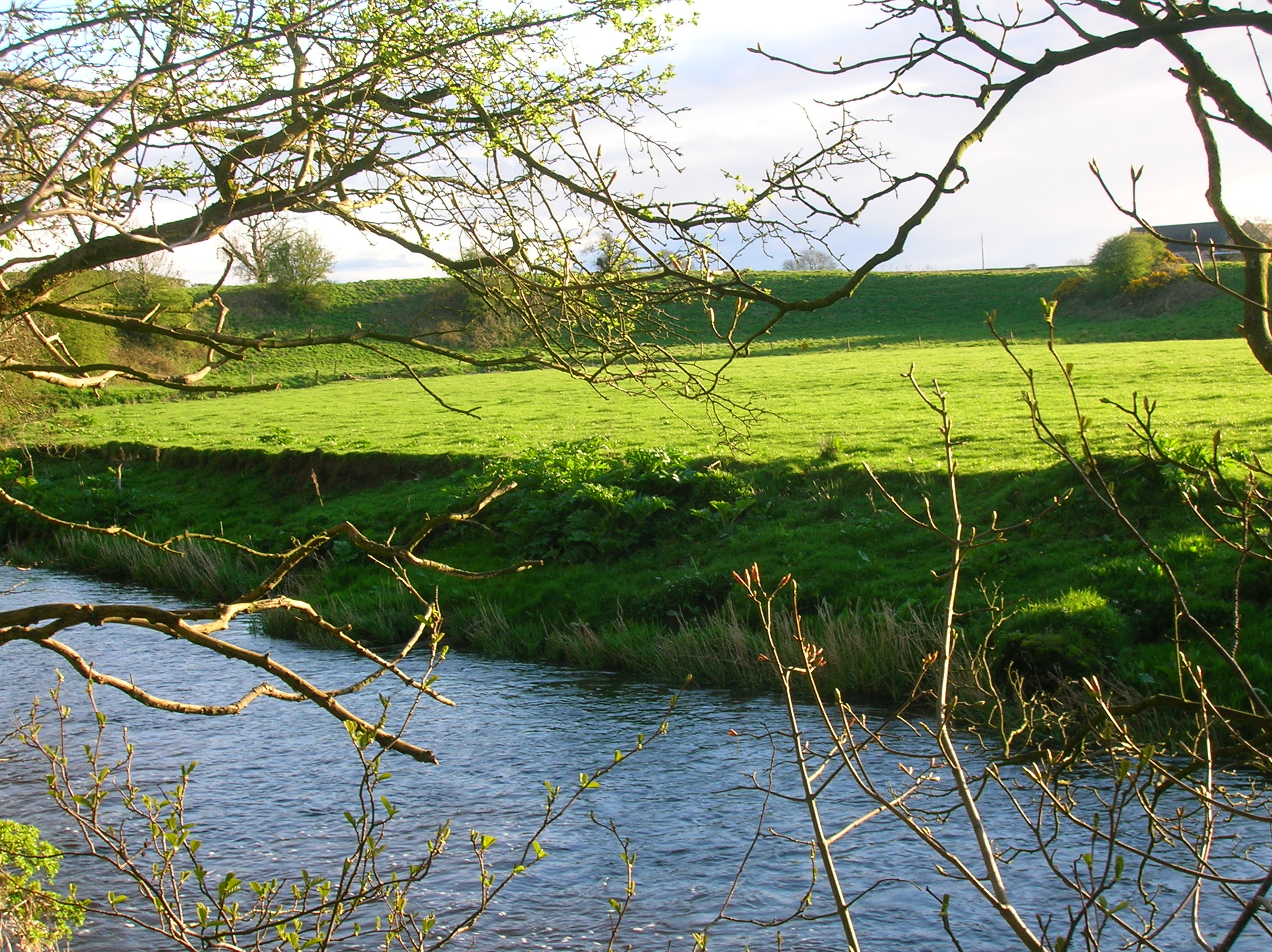 Scroaggy or Fairliecrevoch Holm by the Annick Water, Ayrshire, Scotland.